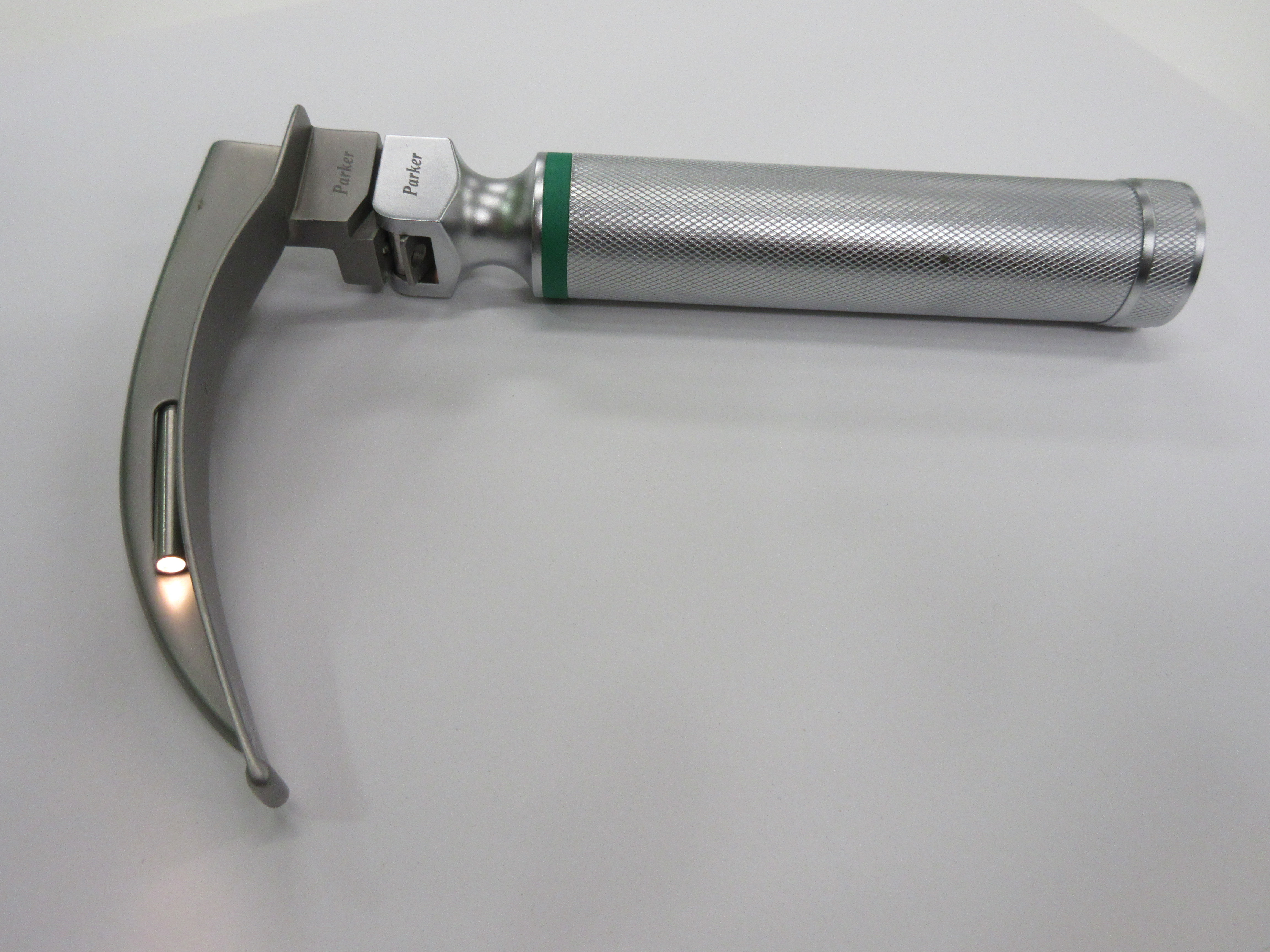 Laryngoscope